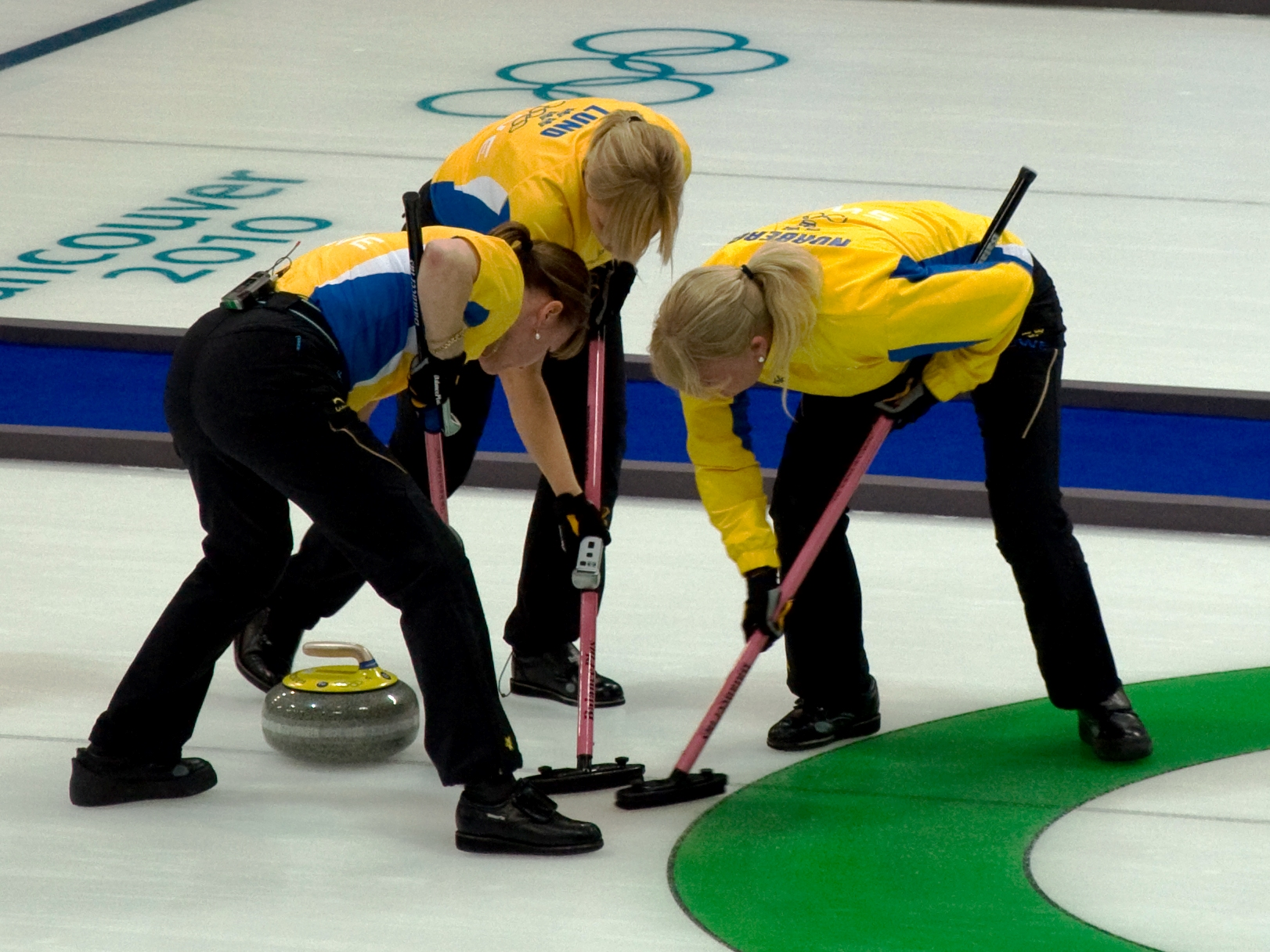 2010 Winter Olympic Games; curling team Sweden